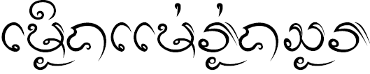 Lanna-Name of District in the North of Thailand